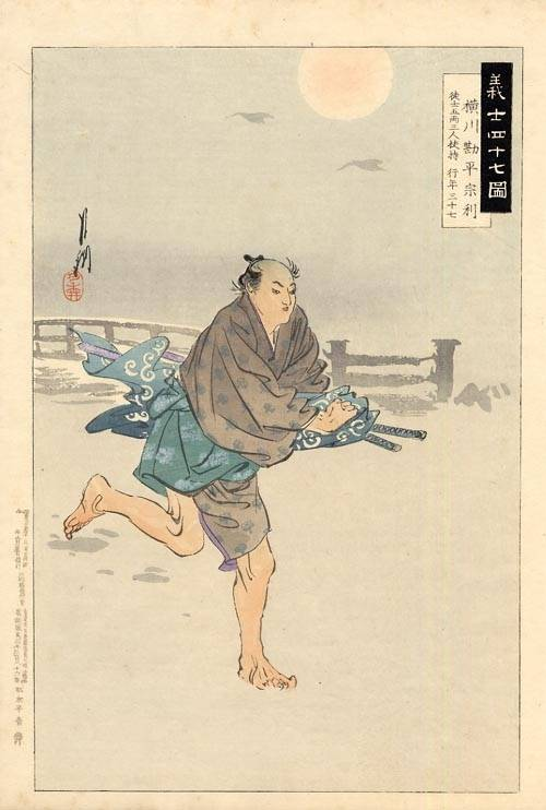 Ronin are masterless samurai. Chushingura is the true story of 47 samurai who became masterless in 1701, after their lord had been forced to commit ritual suicide (seppuku) for assaulting a court official who had insulted him. They avenged him by killing the court official after patiently planning for over a year. They were themselves then forced to commit seppuku.